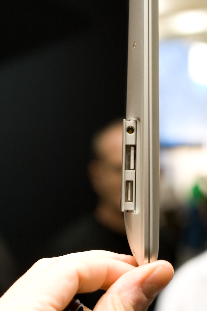 Macbook Air Ports